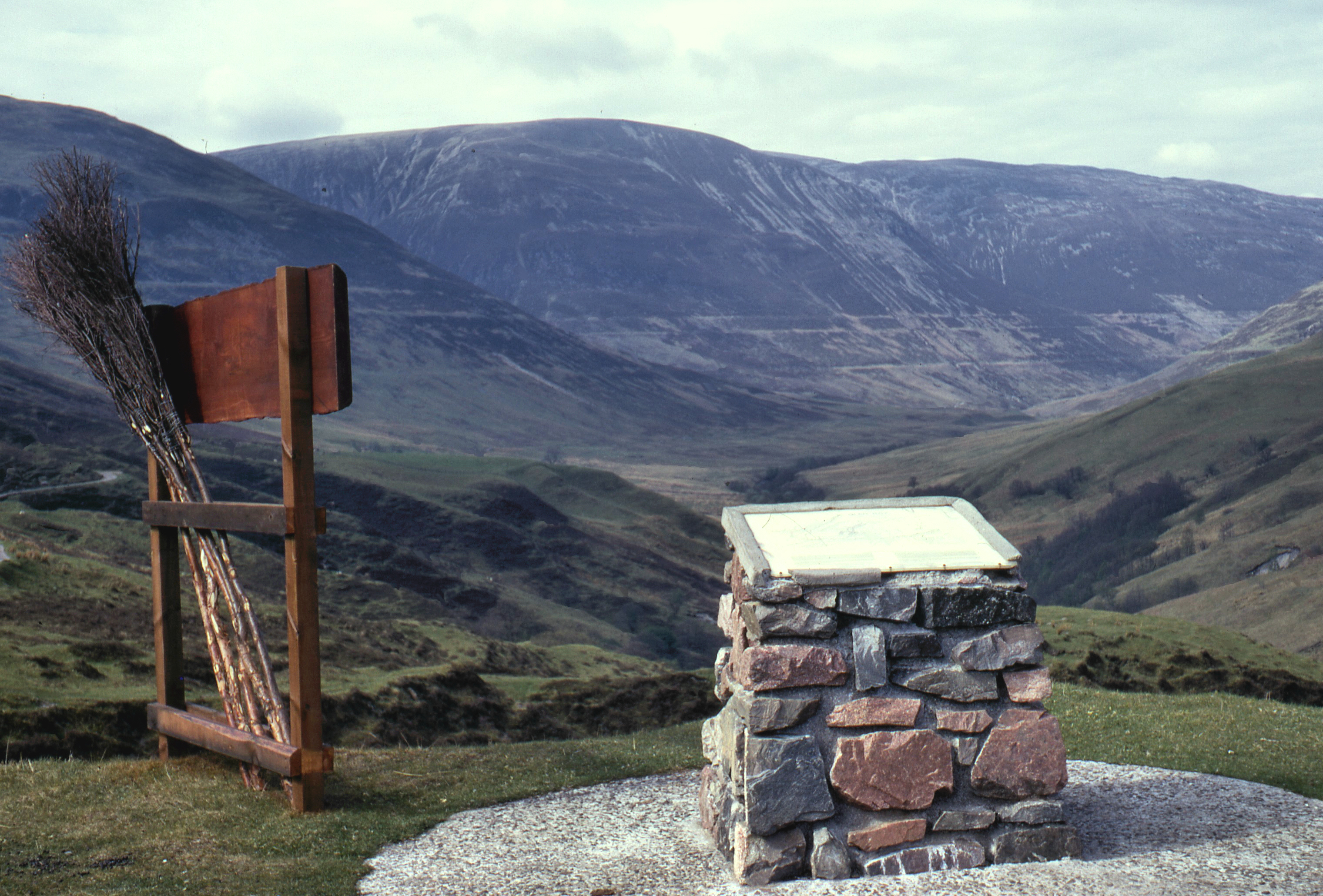 The Parallel Roads of Glen Roy, Glen Roy, Scotland. Taken by Adrian Pingstone in 1972 and placed in the public domain.